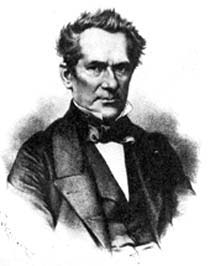 Aleksandr Nikitenko, Russian writer and former serf.